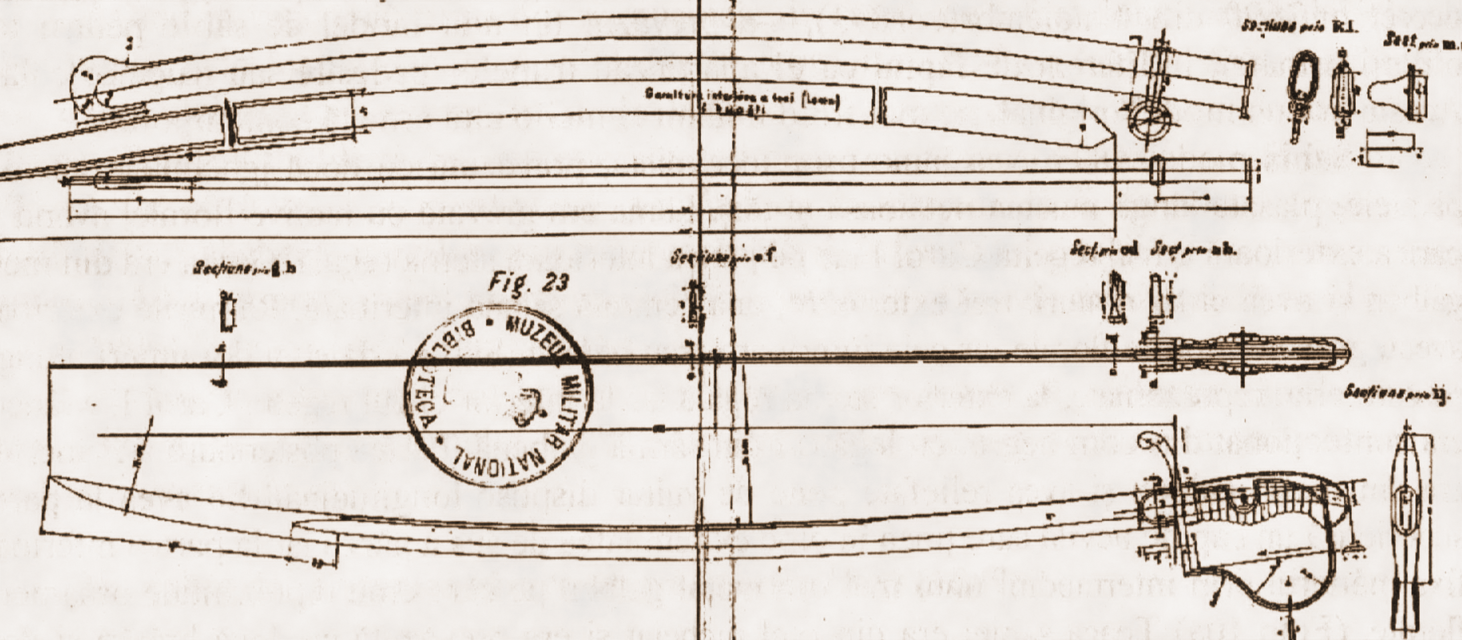 Sword for the soldiers of Romanian Artillery Corps, model 1890